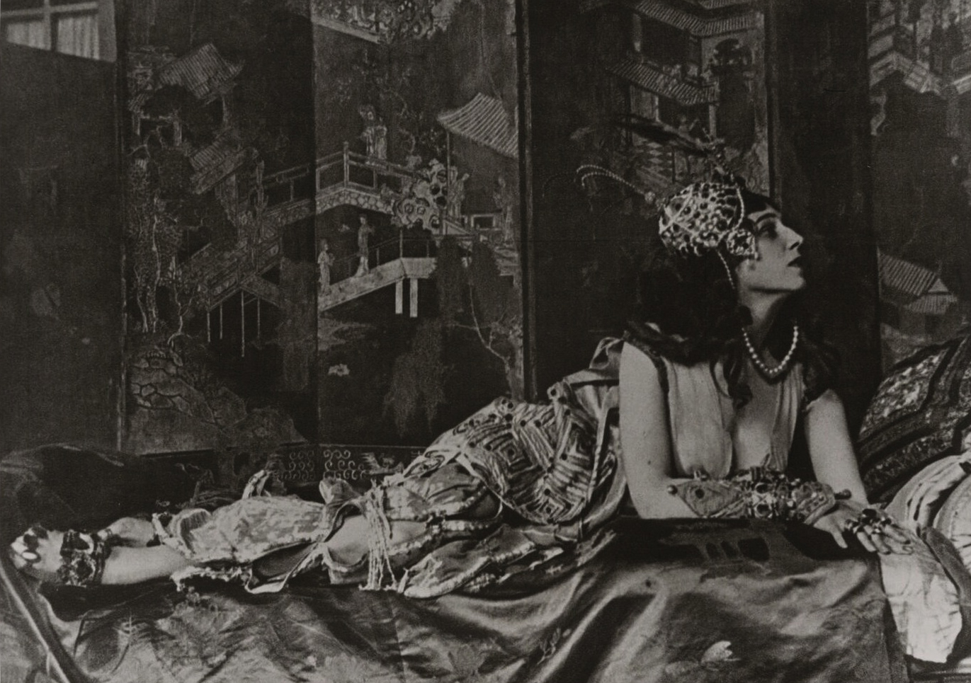 Ida Rubinstein as Zobeide in the 1910 Ballets Russes production Scheherazade.